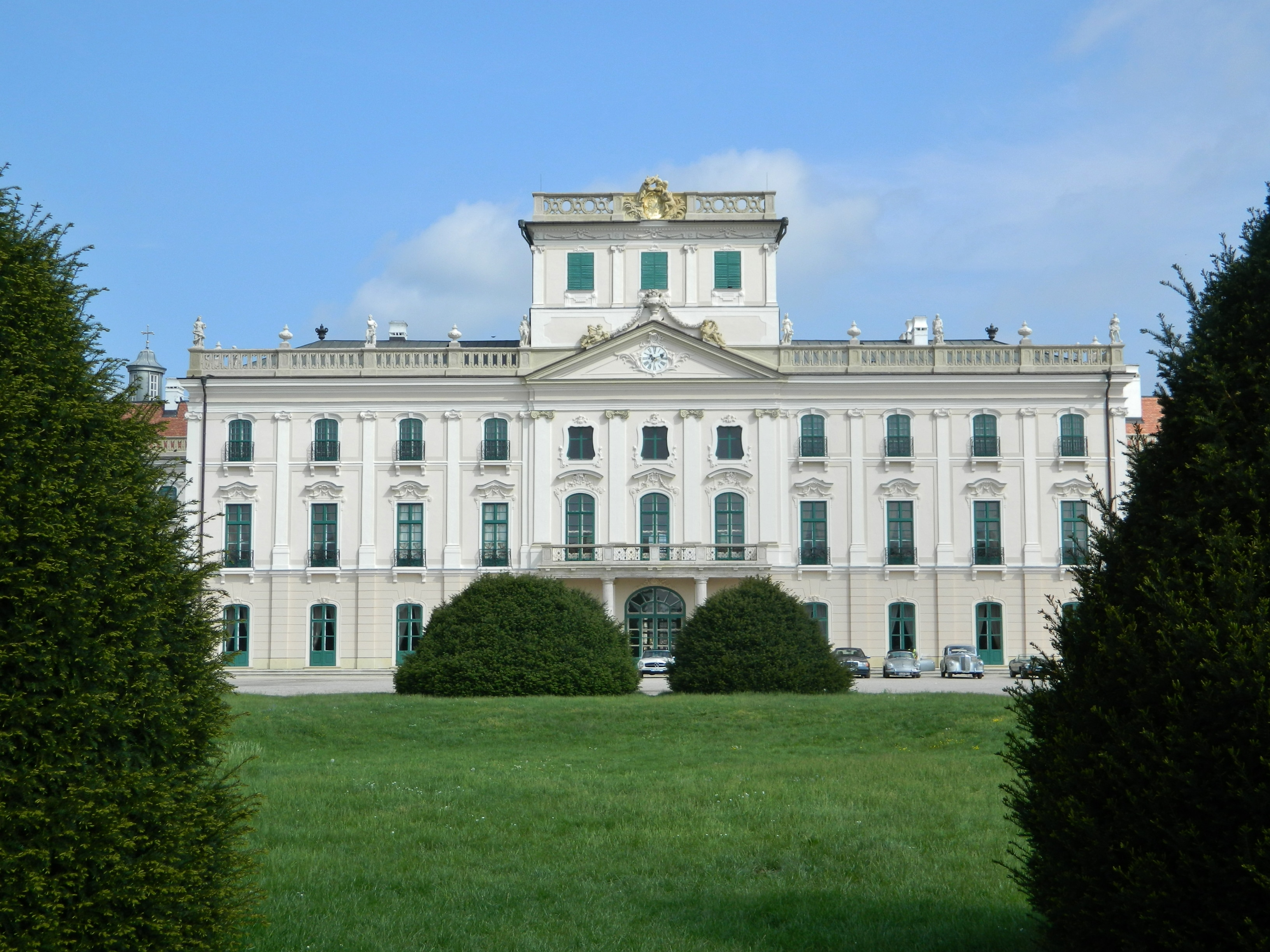 Esterhazy castle - south facade (Hotel front), Fertőd This is a photo of a monument in Hungary. Identifier: 4051